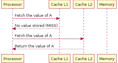 A processor fetch data on the L2 cache.